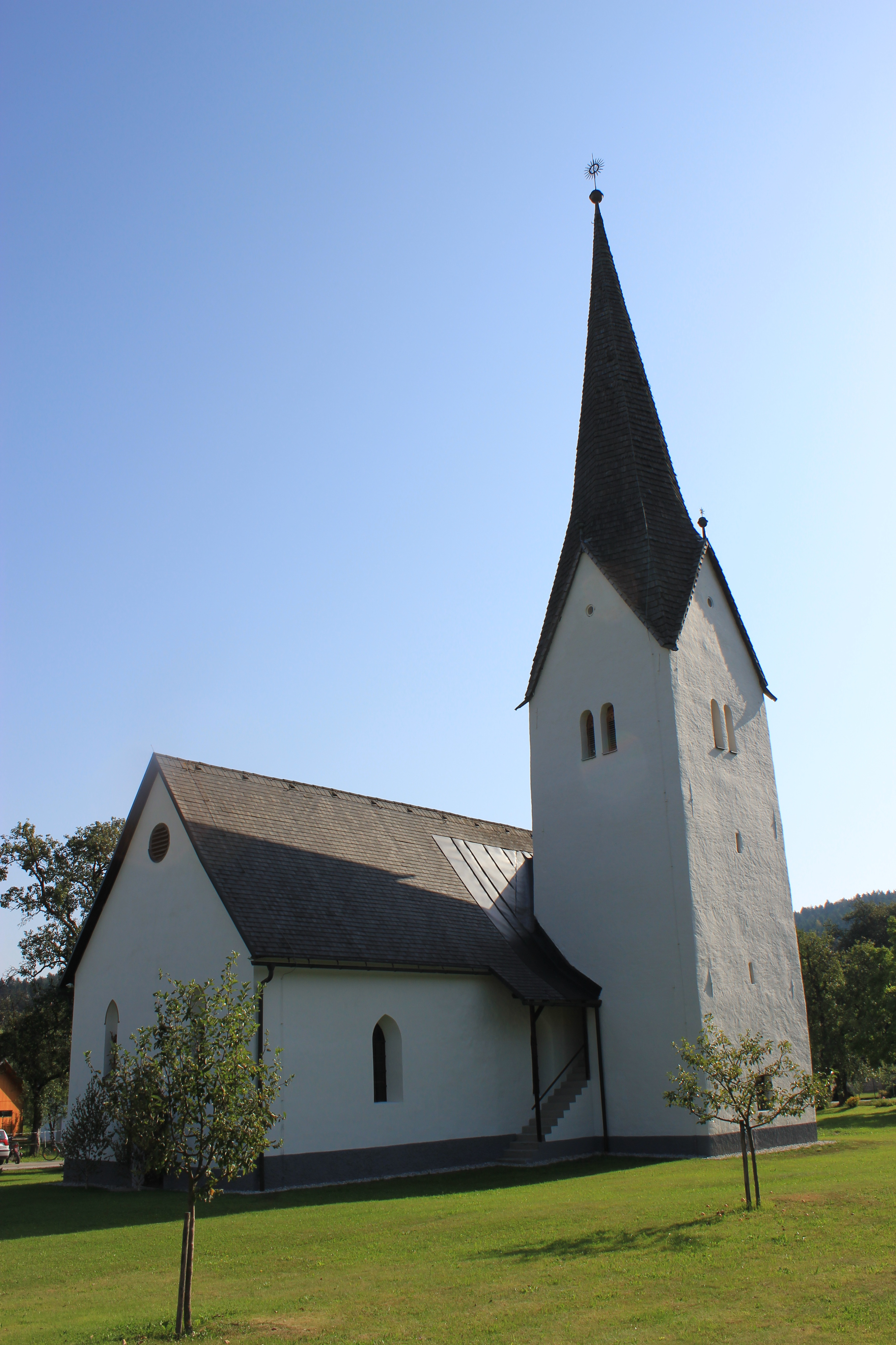 Subsidiary church Saint Bartholomew at Oberloibach in the community of Bleiburg